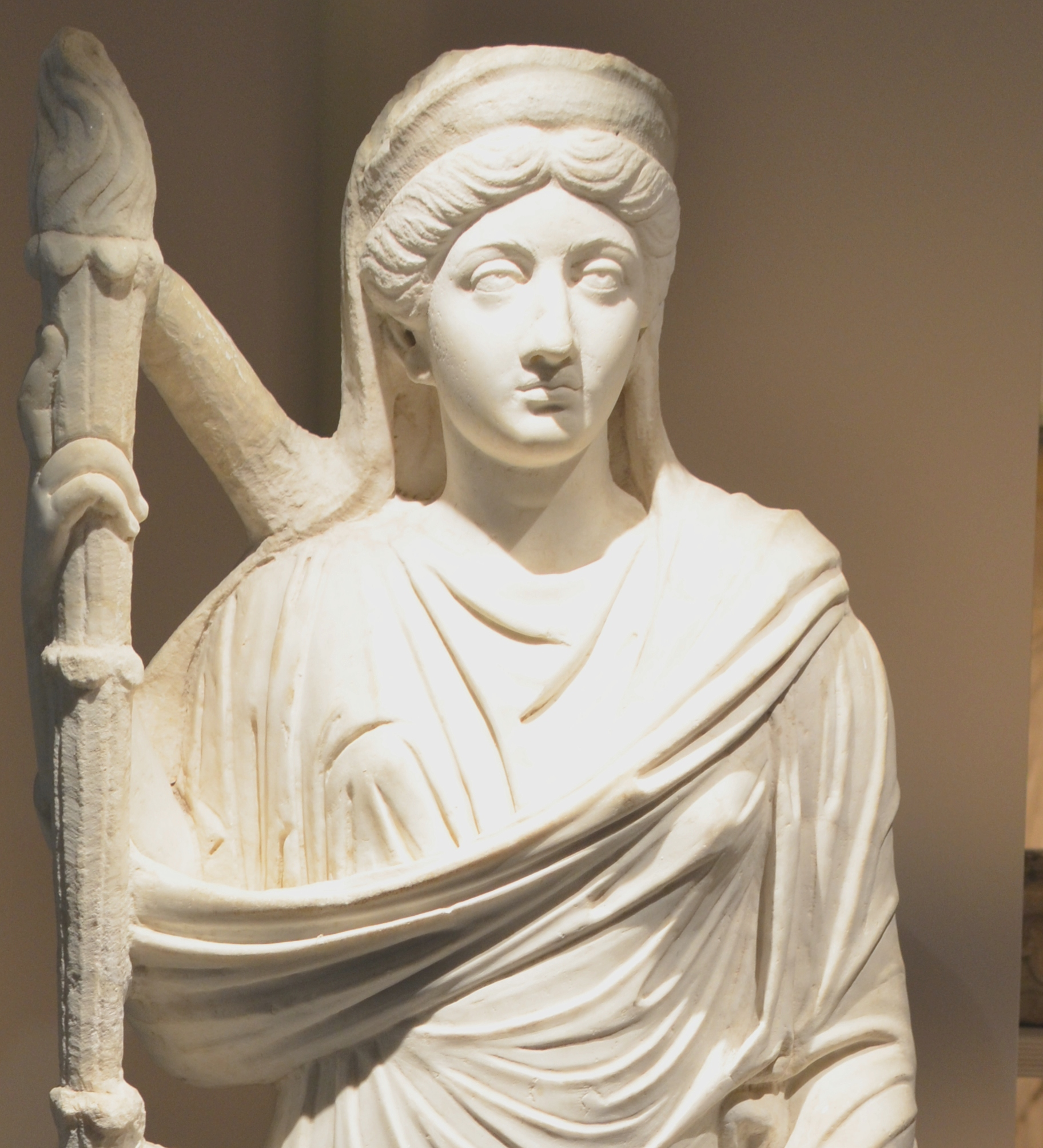 Statue of Lucilla, consort of Roman emperor Lucius Verus, depicted as the goddess Ceres